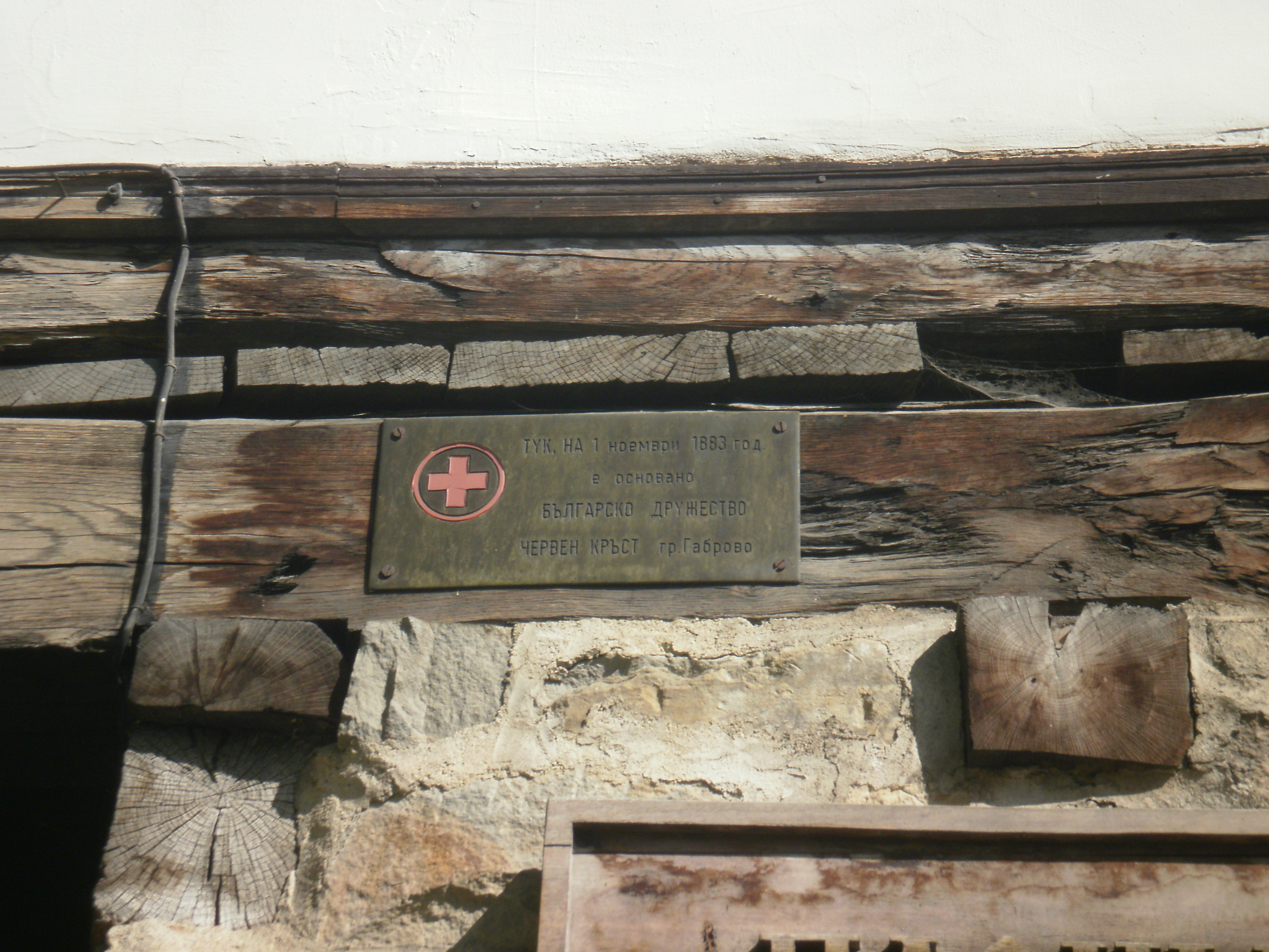 Dechkova house-Bulgarian Red Cross, Gabrovo.